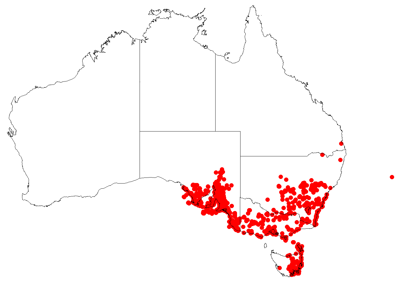 Allocasuarina verticillata Occurrence data from AVH